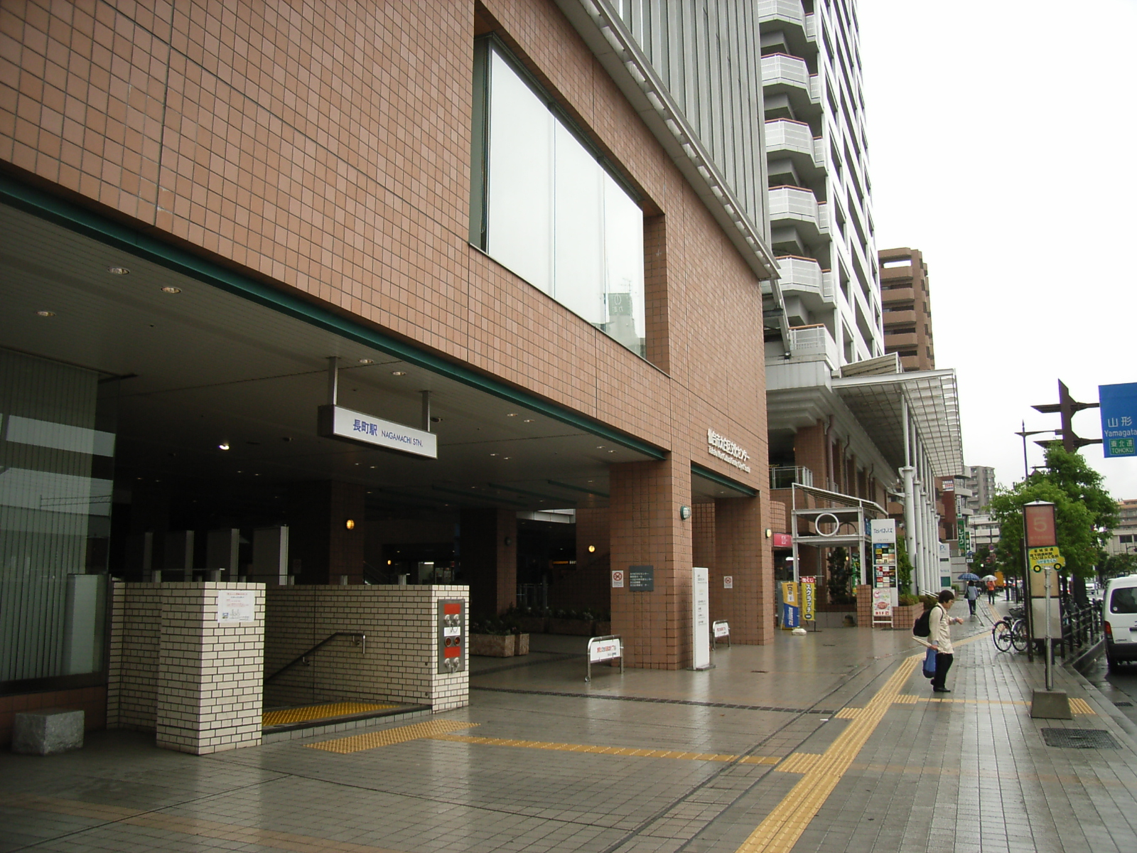 Nagamachi Station of the Sendai Subway. Sendai, Miyagi prefecture, Japan.